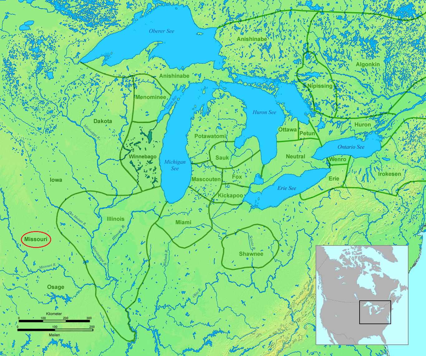 Tribal area of Missouri in the seventeenth century